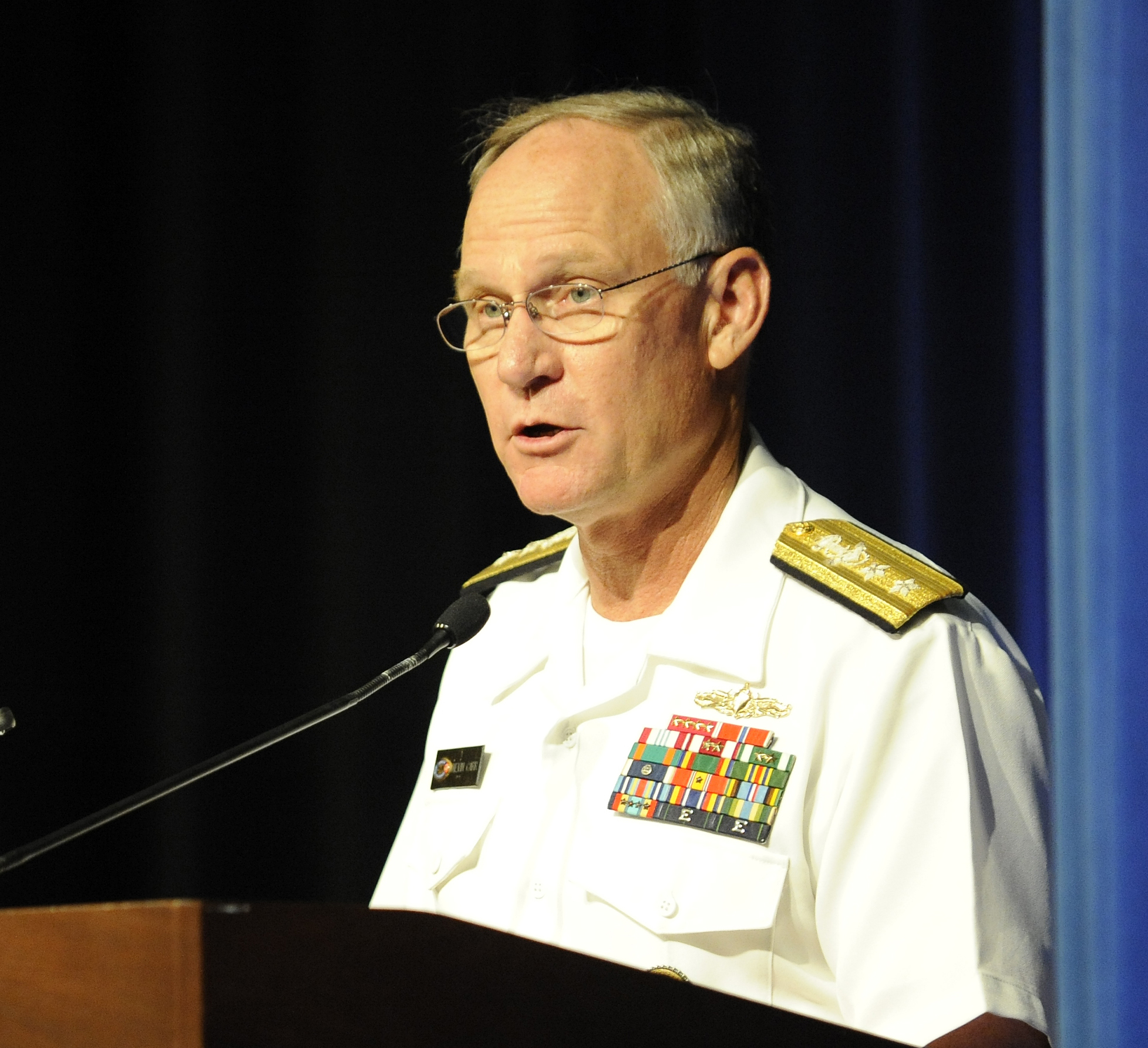 ARLINGTON, Va. (July 15, 2011) Rear Adm. Nevin Carr, Chief of Naval Research, delivers remarks during the 2010 Dr. Delores M. Etter Top Scientists and Engineers of the Year awards. The award was established to honor the Department of the Navy's scientists and engineers for superior technical achievements and to promote continued excellence. (U.S. Navy photo by John F. Williams/Released)